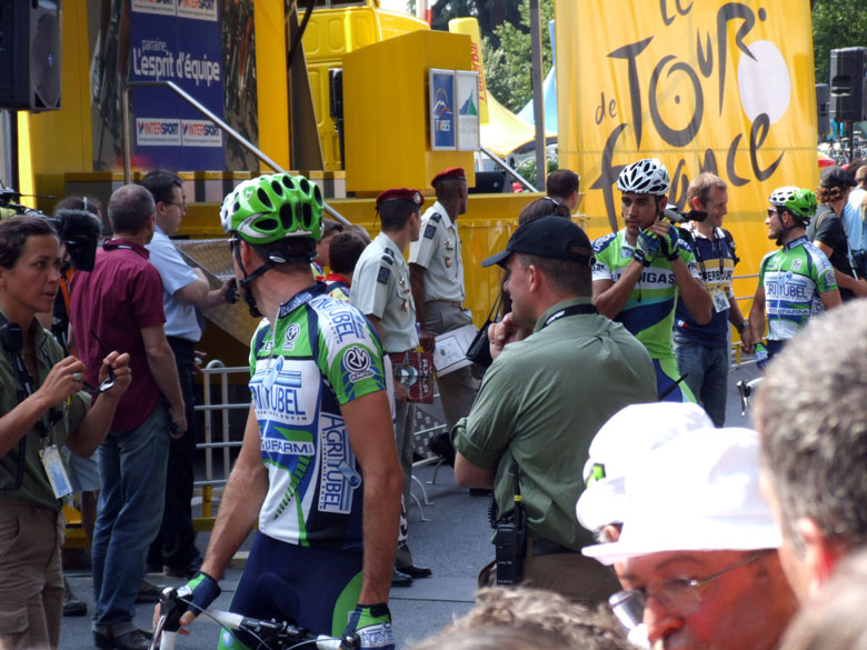 Agritubel riders making preparations at the 2006 Tour de France. Taken by Stitchface in Tarbes.